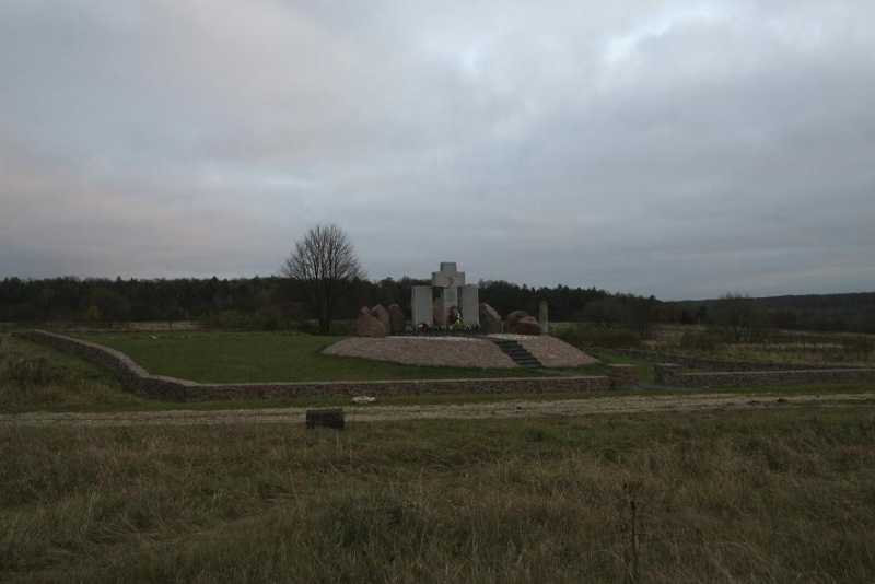 Polish graveyard in Huta Pieniacka, Ukraine